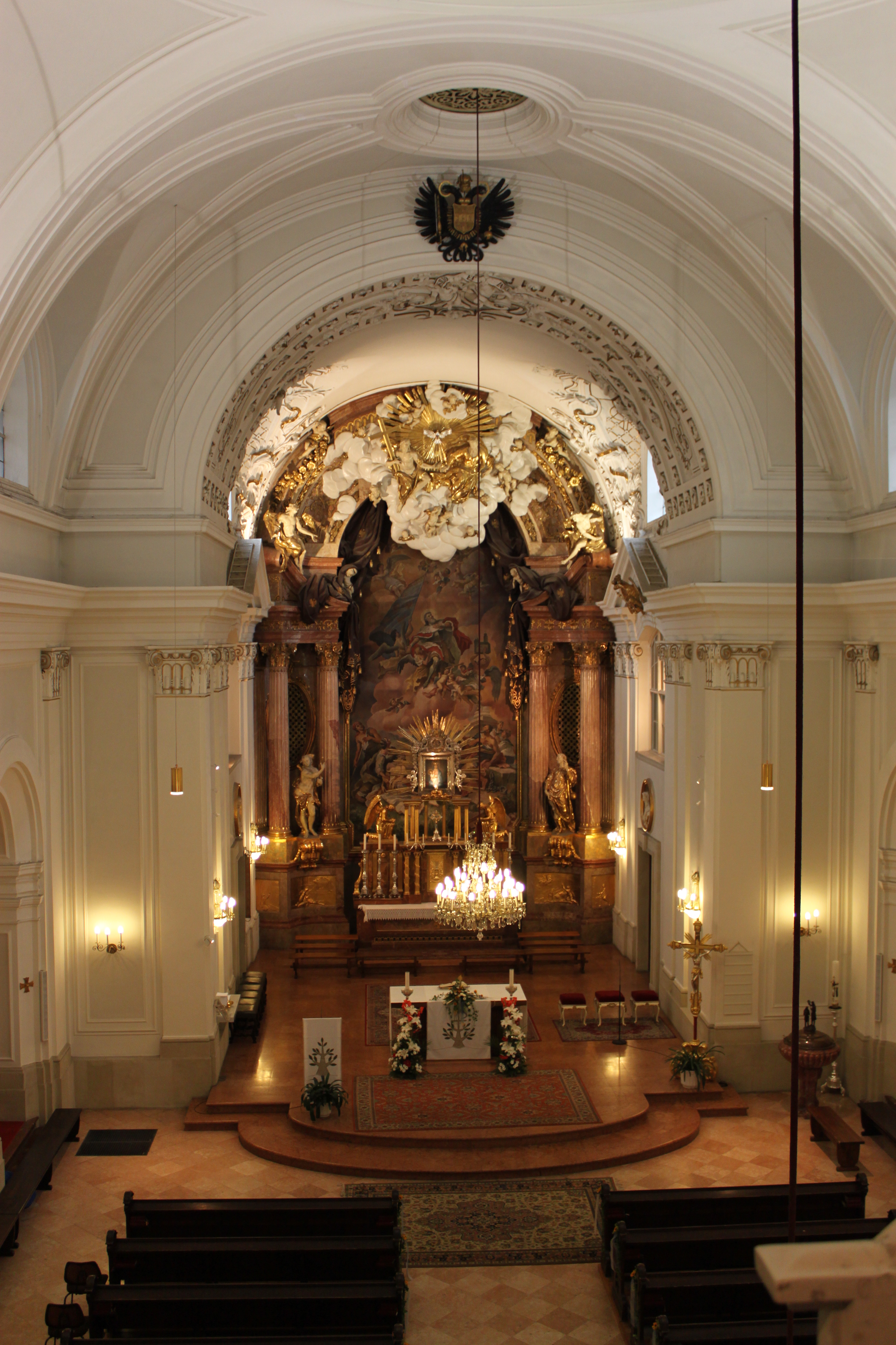 Interior room of St. Leopold's parish church, Vienna, Leopoldsstadt